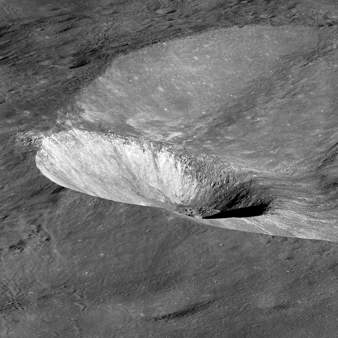 Hawke crater, 13.2 km wide, is noticeably tilted because the impactor - an asteroid or a comet - that excavated it struck the sloping inner wall of Grotrian crater. Visible are light-colored rays that attest to the crater's youth, as well as subtle signs of darker impact melt. Image width is about 20 km, -66.61 lat, 128.65 lon. Image number M1258054744.